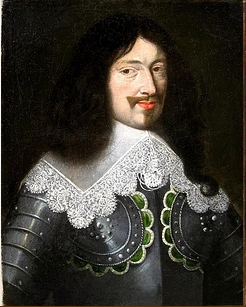 Portrait of Luís XIII